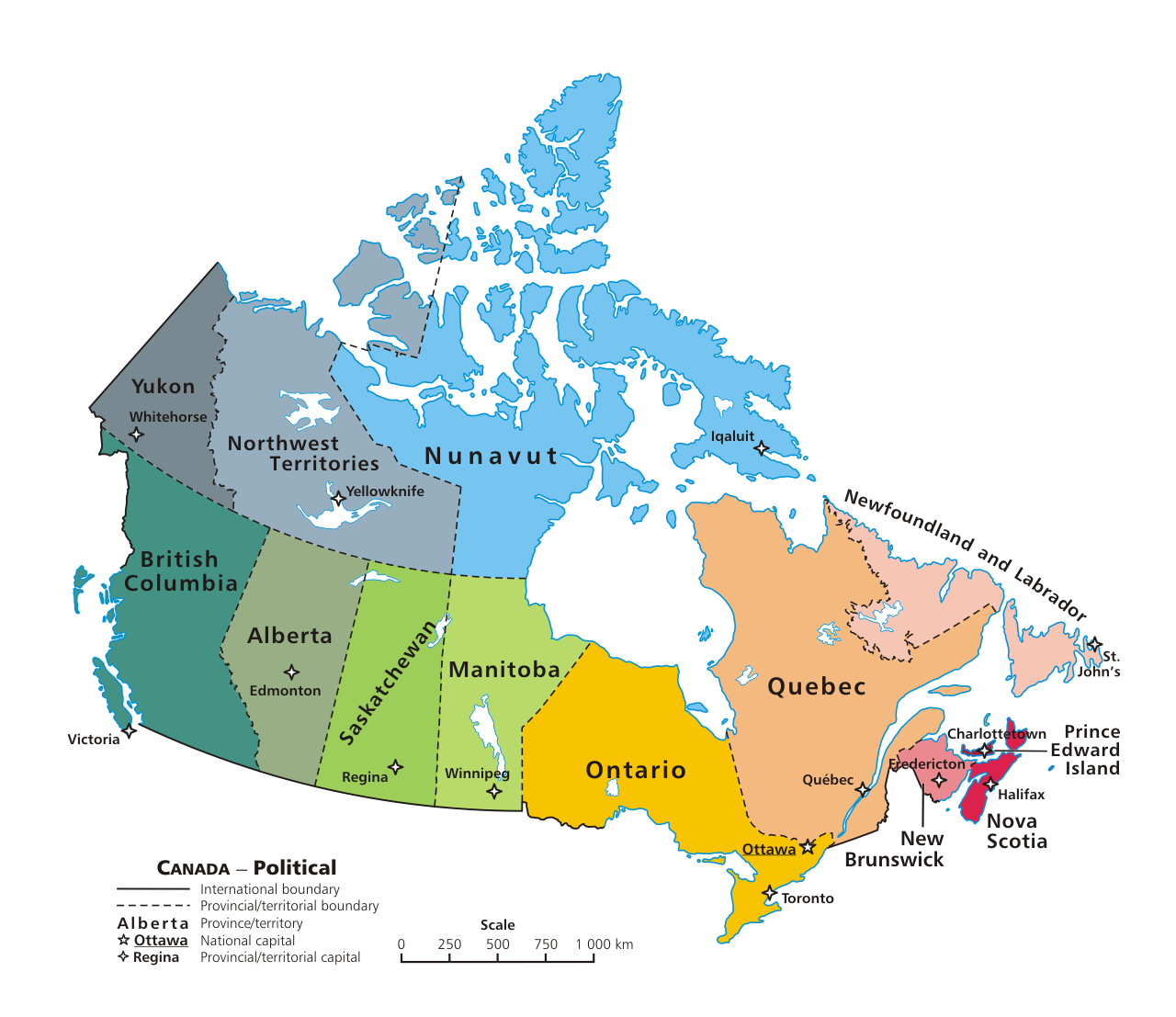 A map of Canada exhibiting its ten provinces and three territories, and their capitals. (Lambert conformal conic projection from The Atlas of Canada)